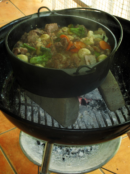 Potjiekos